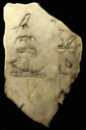 Vessel fragment inscribed with the name of the pharaoh Qa'a. From late in the 1st dynasty, circa 2900 B.C.